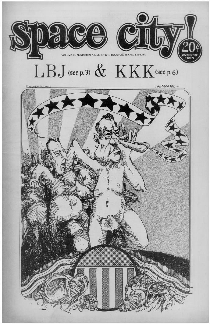 This is a scan of a cover of Space City! with art by the late Bill Narum. I was publisher of Space City! and own the image.